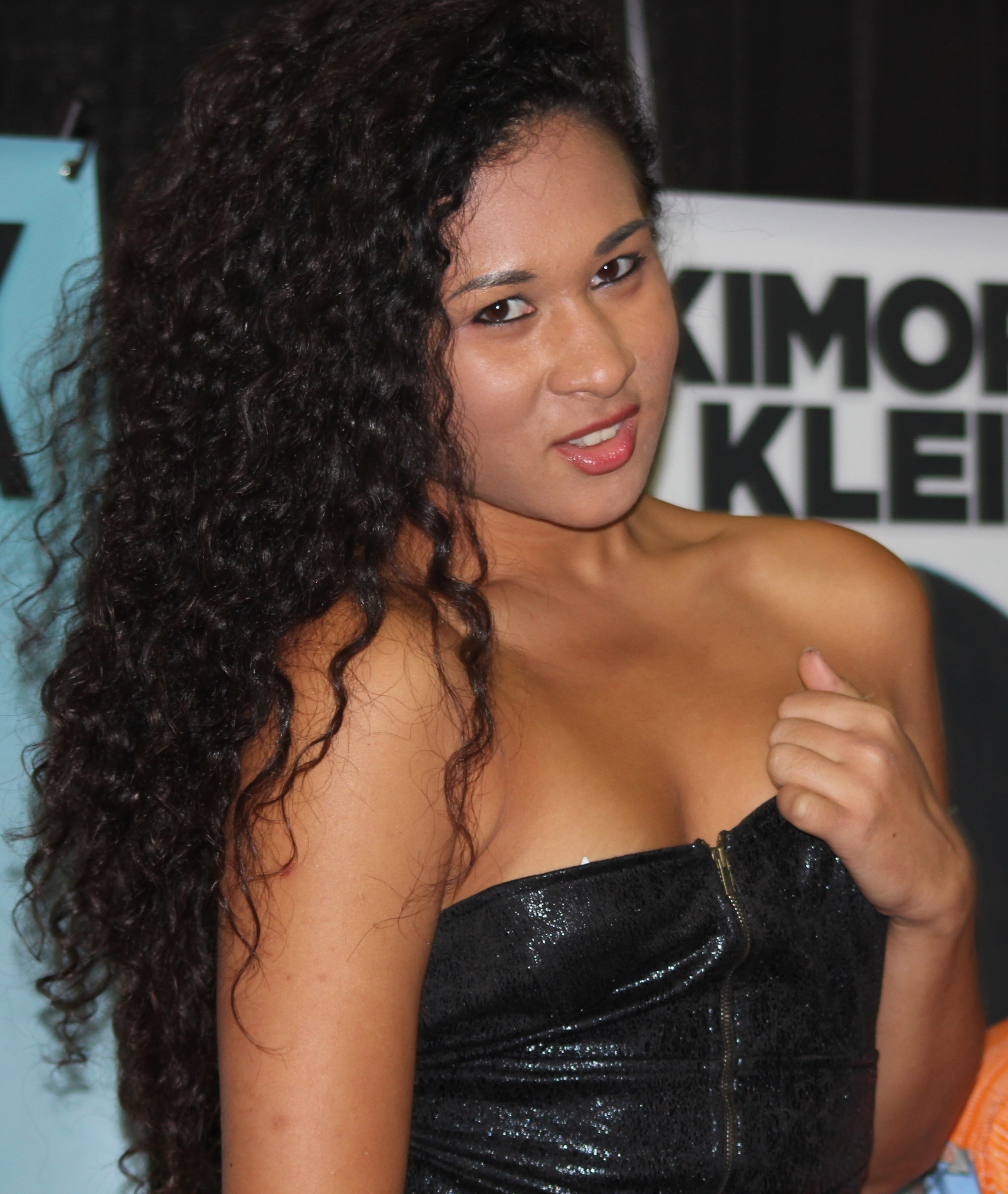 Edison, New Jersey